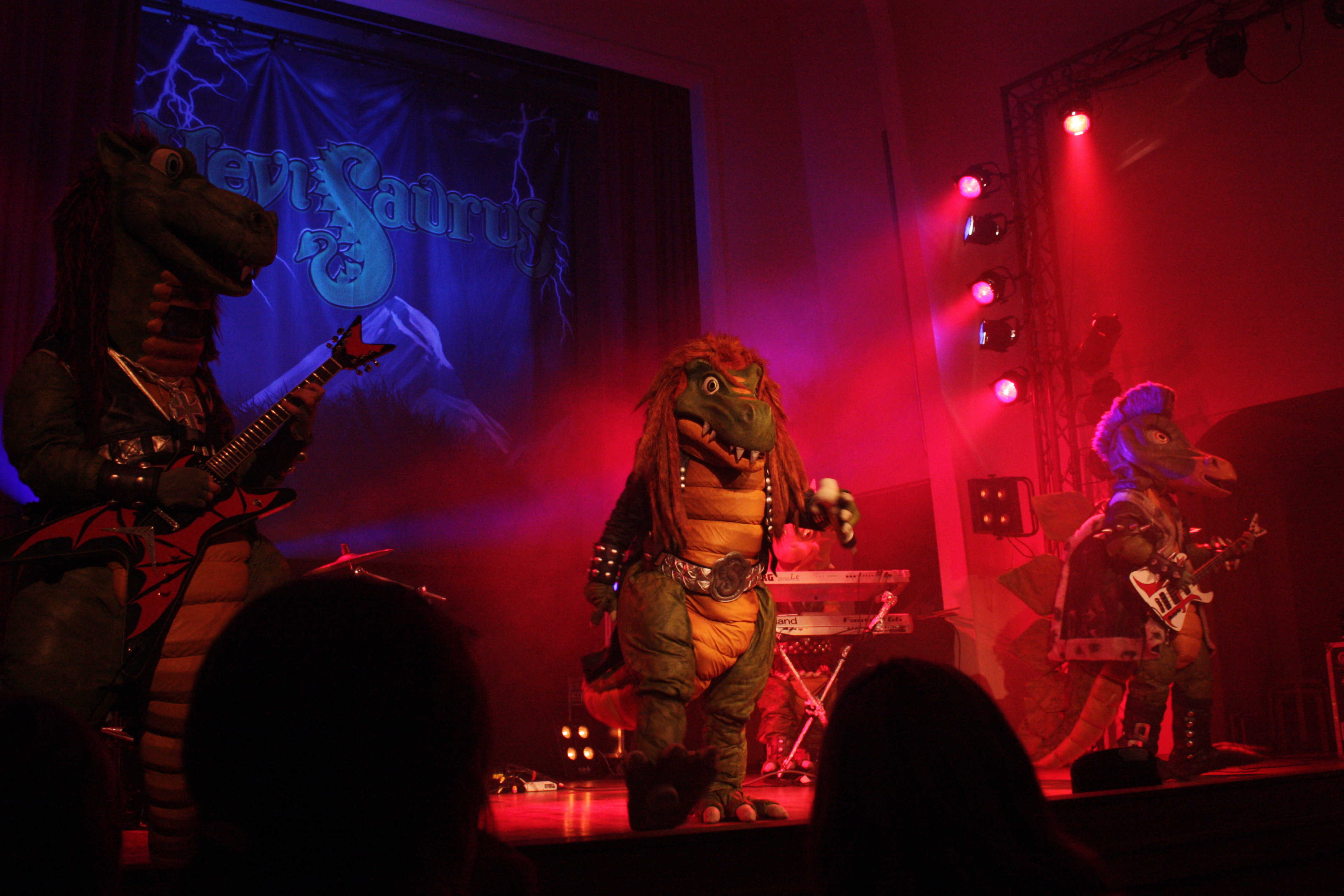 The Finnish childrens' band Hevisaurus performing live in Kulttuuritalo KIVA in Salo, Finland